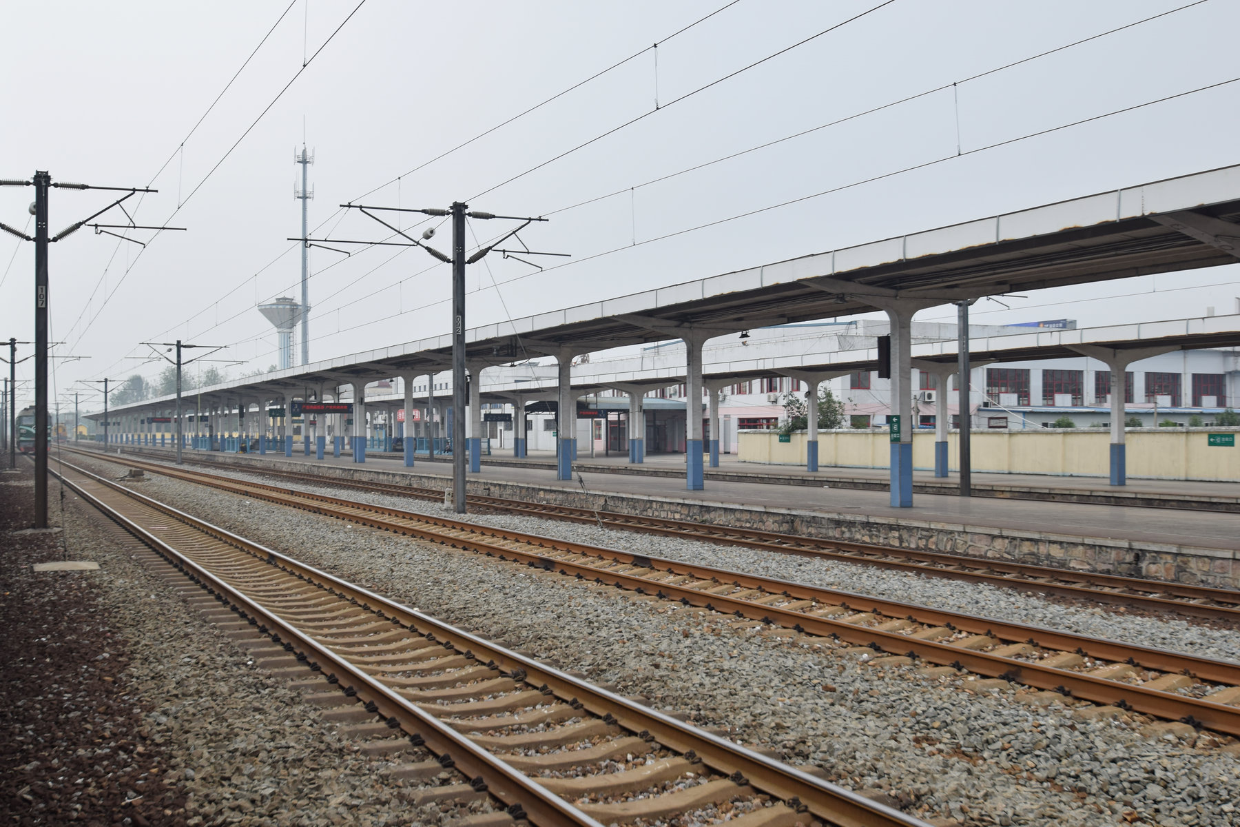 Platforms of Huangchuan Railway Station, view towards Guangshan Railway Station.